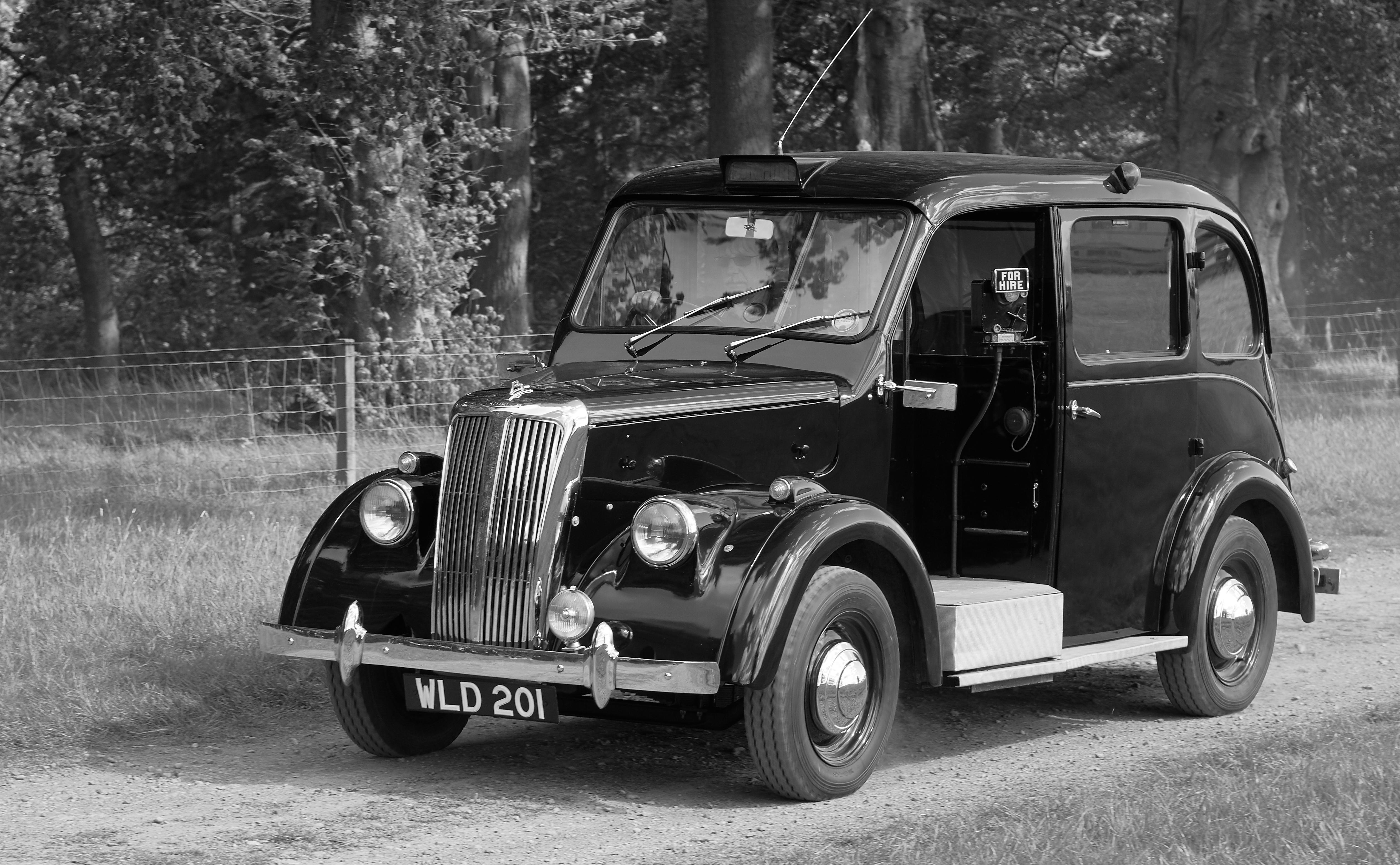 Beardmore Mk 7 Taxi Thirlestane